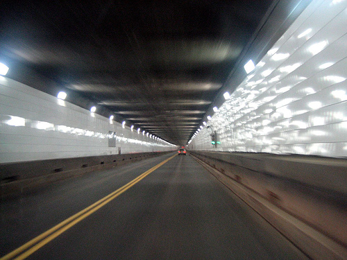 approaching a green traffic light in the Detroit-Windsor Tunnel